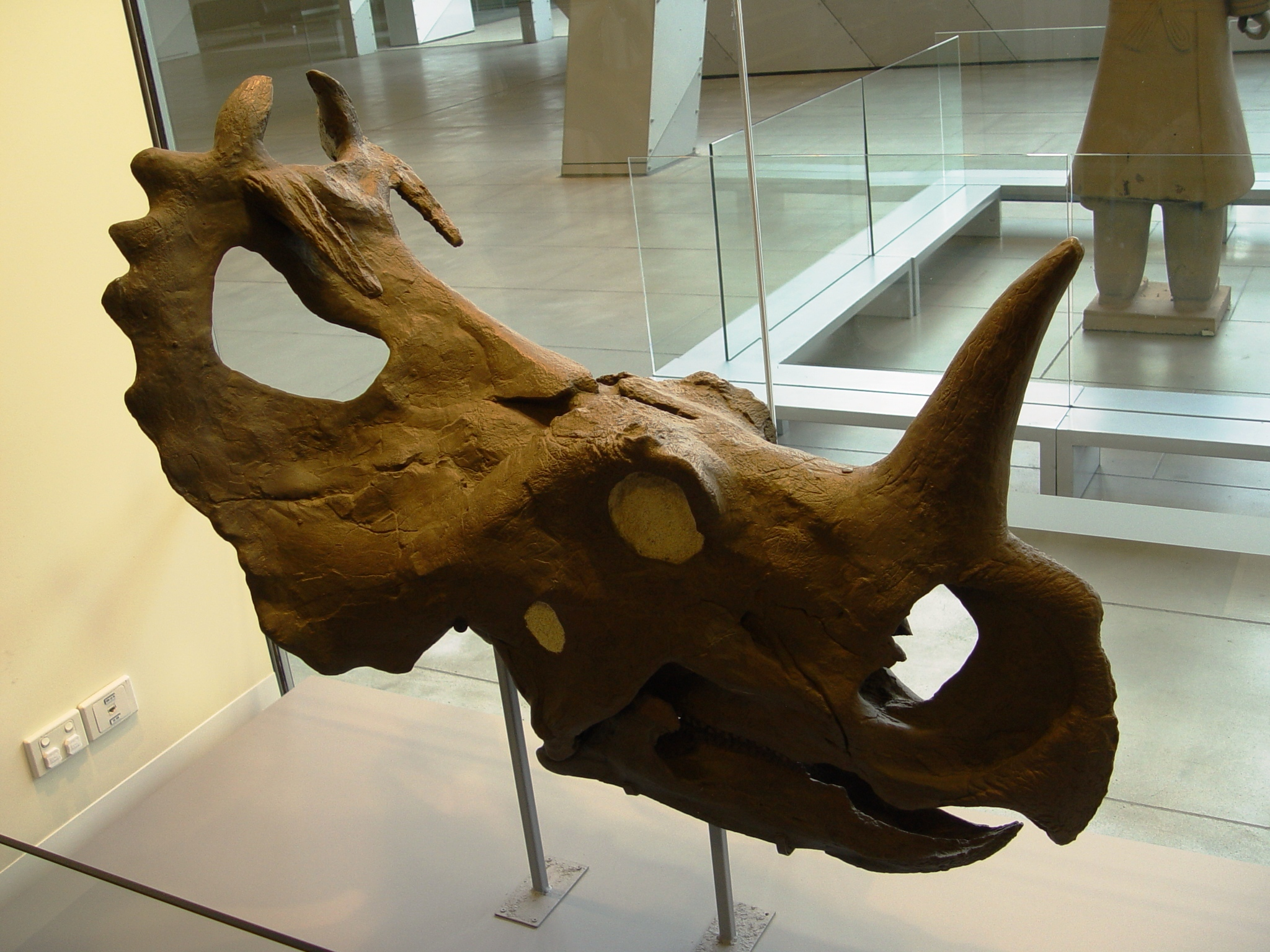 Centrosaurus lived in the Late Cretaceous Period, about 75 million years ago.Photo taken in Museum of Victoria (cast of specimen AMNH 5427, Melbourne, Victoria, Australia)